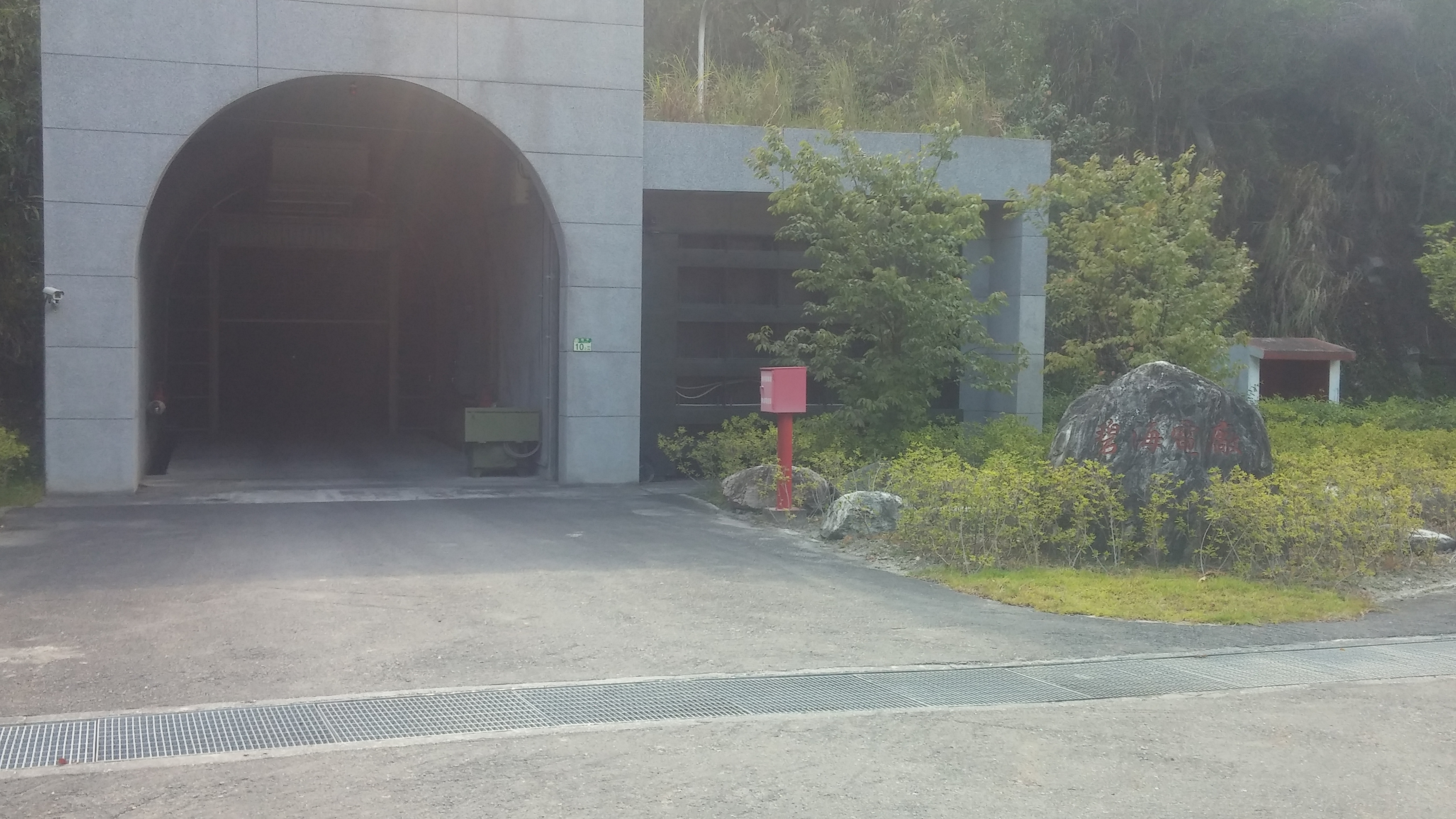 Taiwan power Company The Eastern Power plant Be-Hi Hydroelectricity Gate